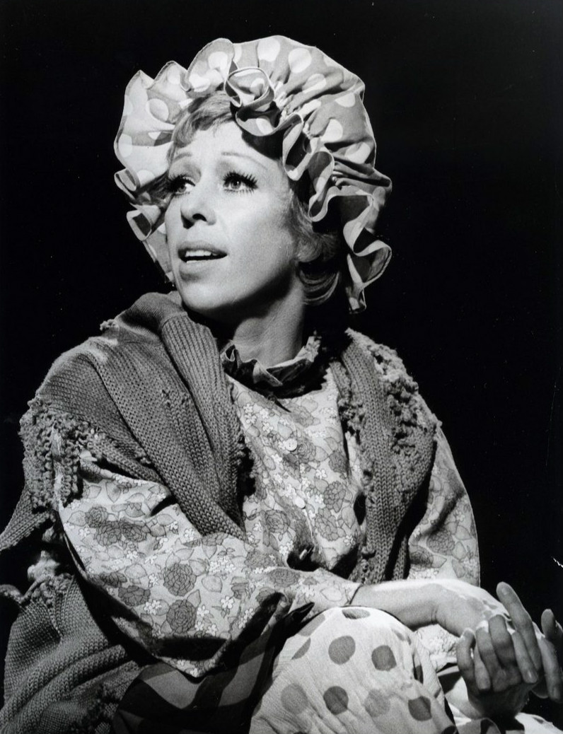 Photo of Carol Burnett as the charwoman character from the television program The Carol Burnett Show.